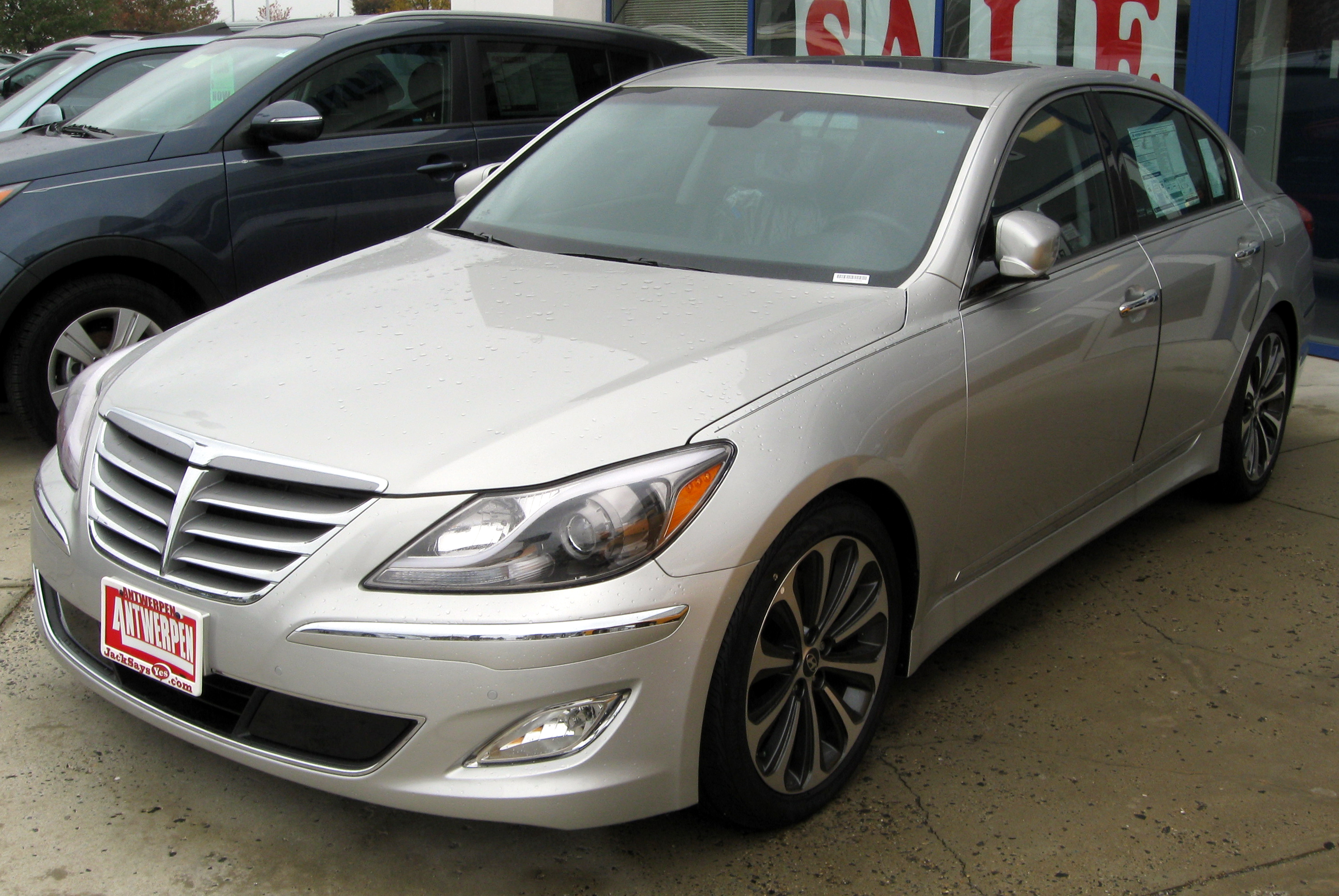 2012 Hyundai Genesis photographed in Clarksville, Maryland, USA.